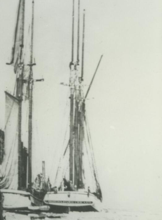 The schooner Christina Nilsson (right) before she sank